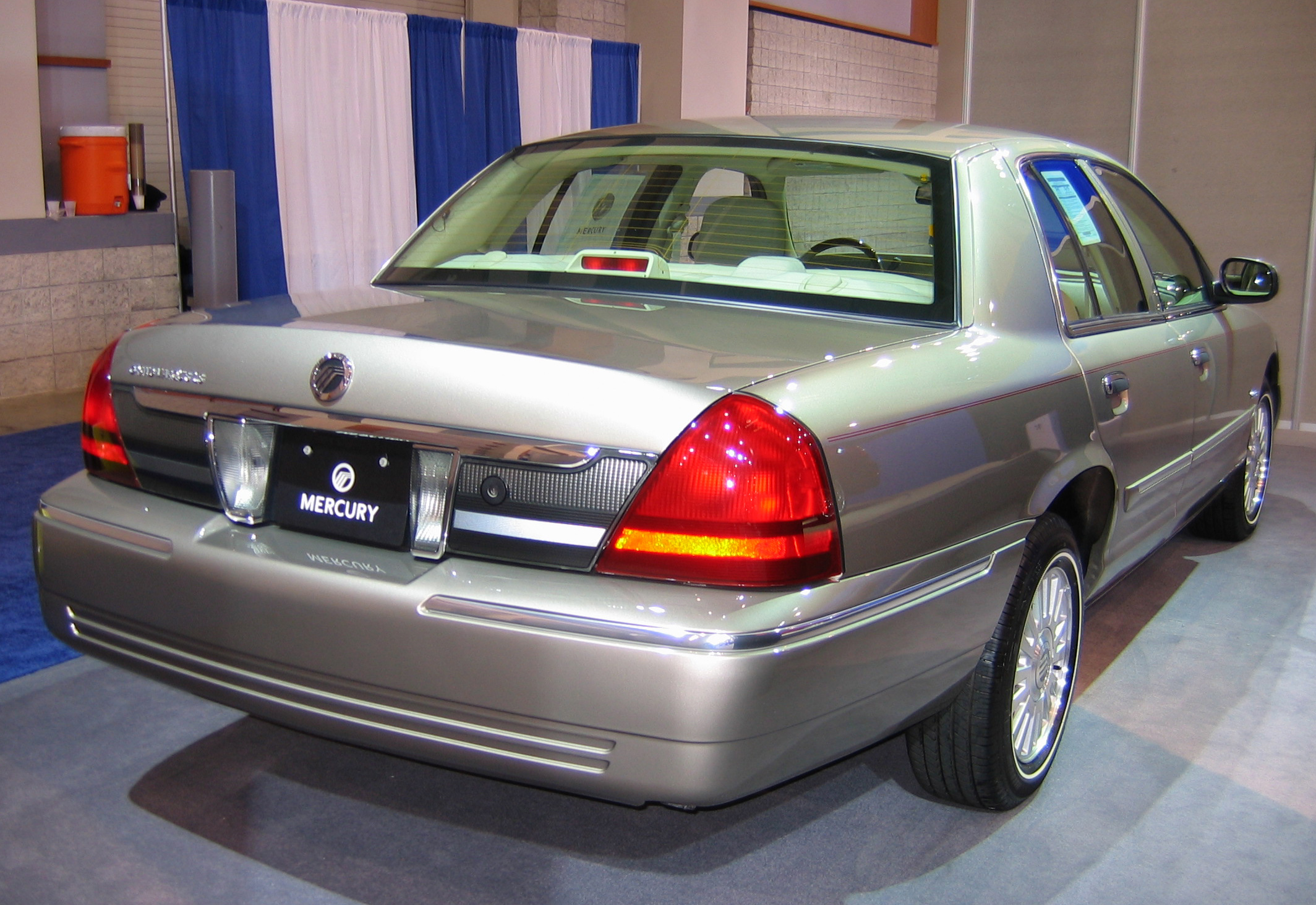 Mercury Grand Marquis on display at the 2006 Washington Auto Show.